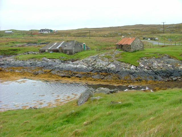 Croft Buildings Overlooking Bágh Sgotbheinn.